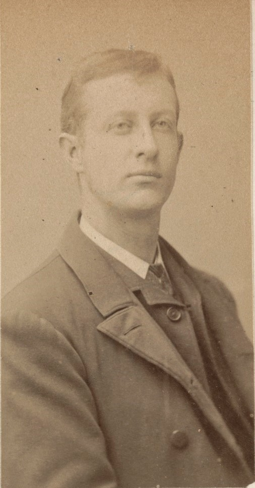 Charles Francis Sievwright (1862-1933)